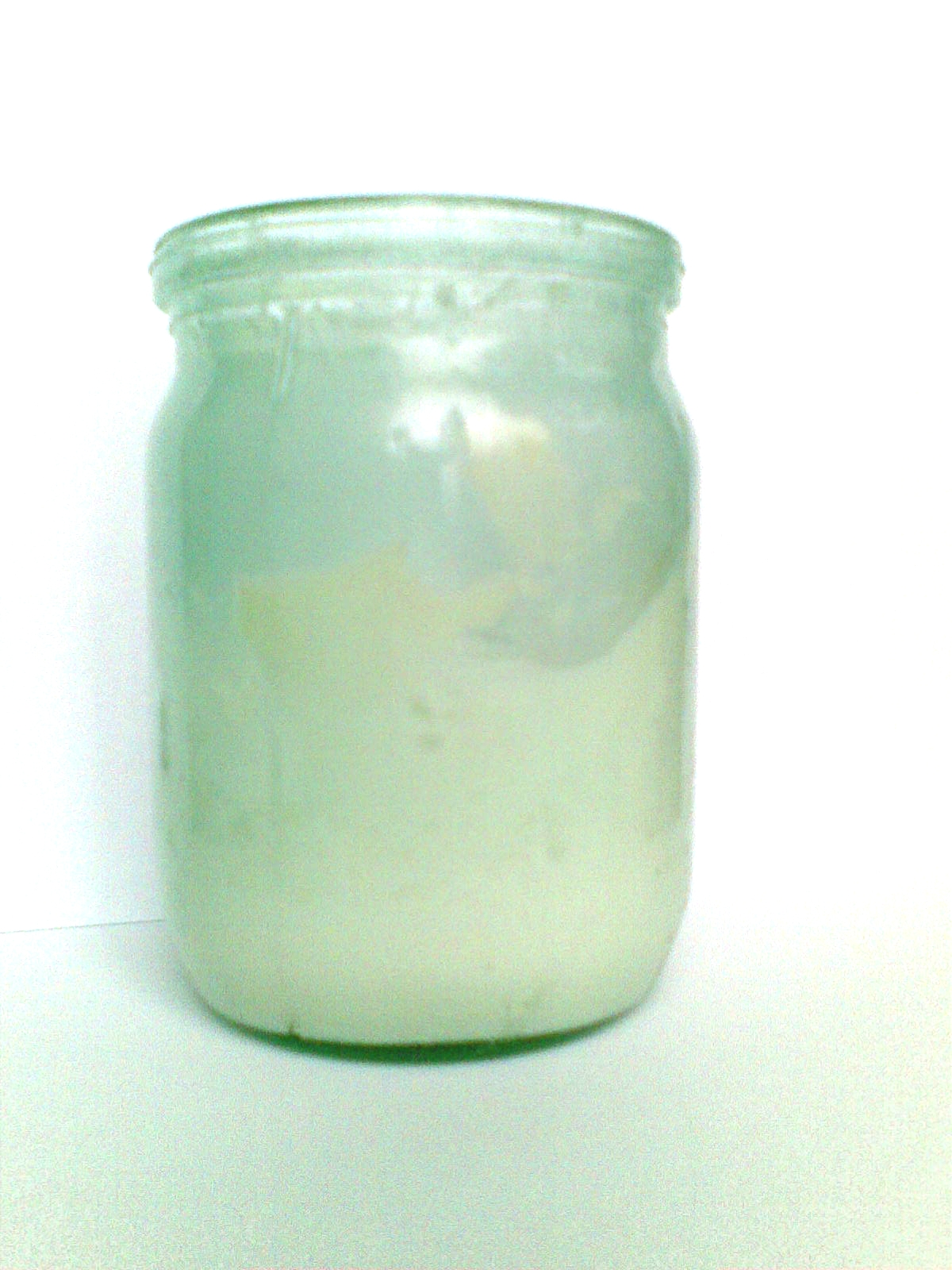 Matsoni, a Georgian fermented milk product